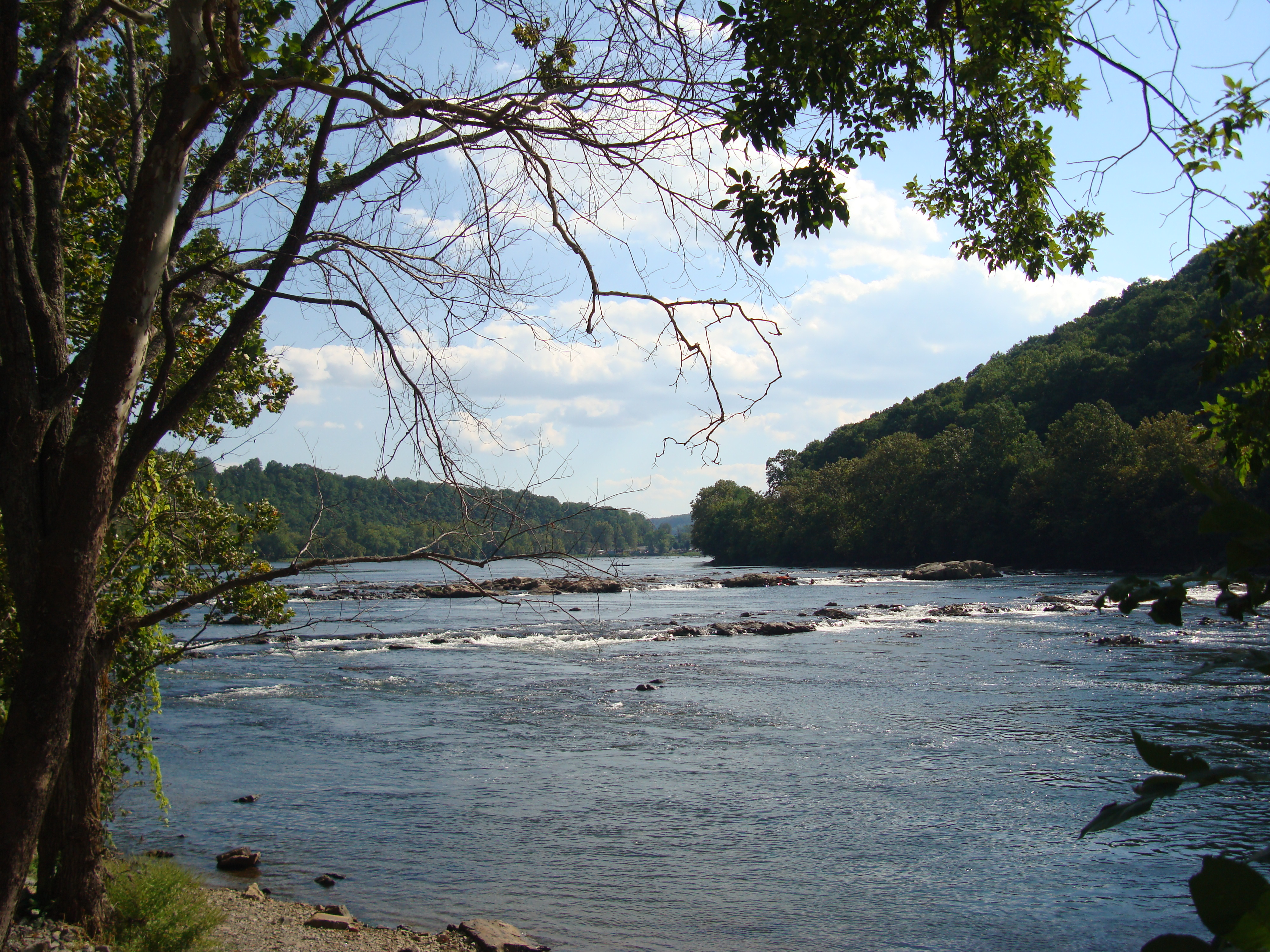 Part of the New River that flows through Virginia